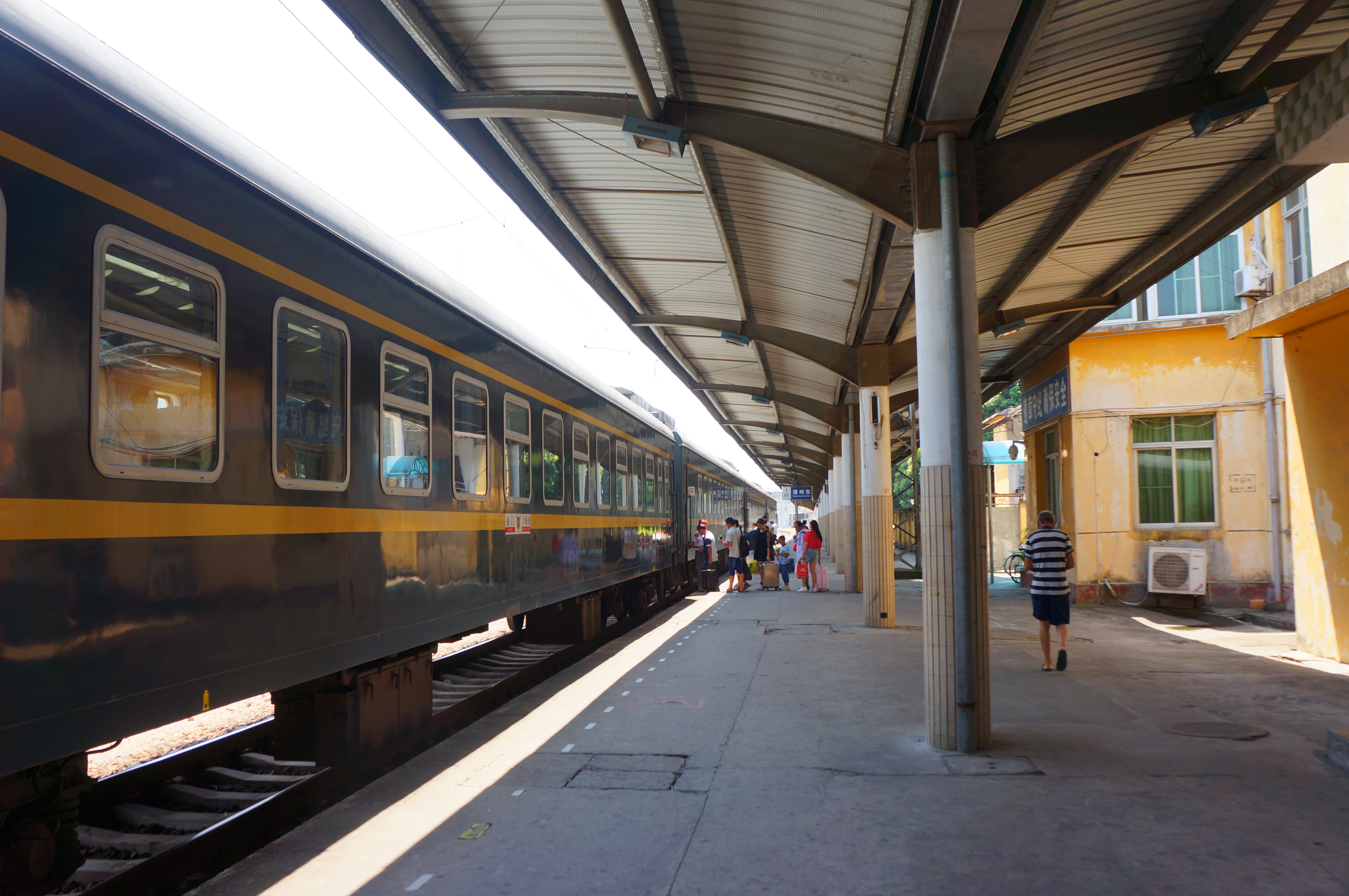 201708 Platform 1 of Zhangzhoudong Station. Next Station, Chiang Thai (the romanized pronunciation looks like a place in Thailand).